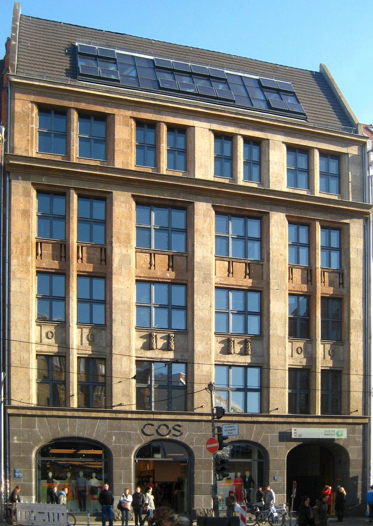 Front building of the Kurt-Berndt-Höfe at Neue Schönhauser Straße No. 20 in Berlin-Mitte. The complex consisting of a commercial building and two courts was built from 1911 to 1912 to a design by the architect Kurt Berndt. Part of the complex is used by the Goethe Institute Berlin. The Kurt-Berndt-Höfe have been dedicated as a historic landmark.